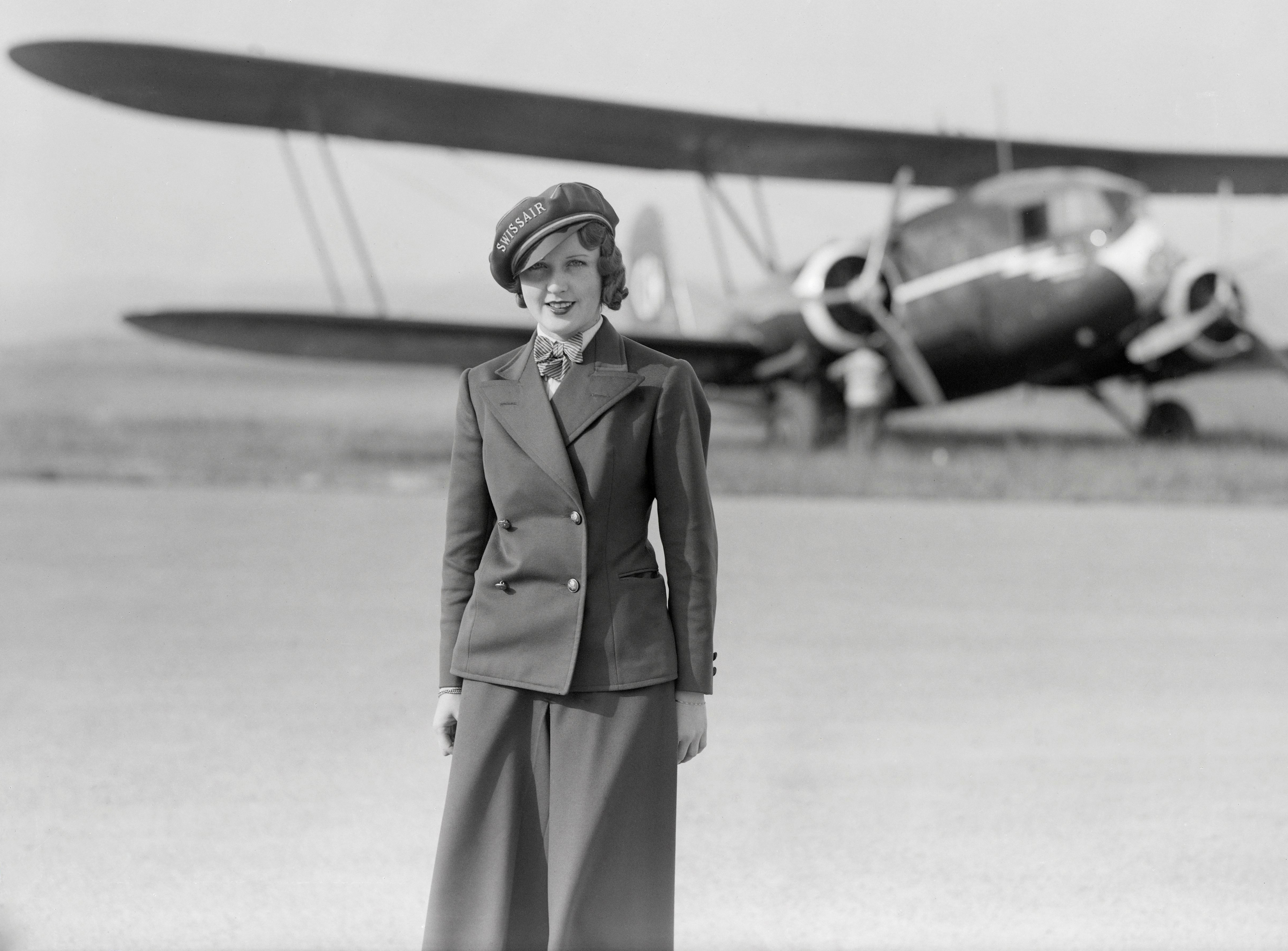 Nelly Diener, the first air stewardess in Europe, standing in front of the Curtis AT-32C Condor, regn. CH-170, in which she would lose her life on 27 July 1934.